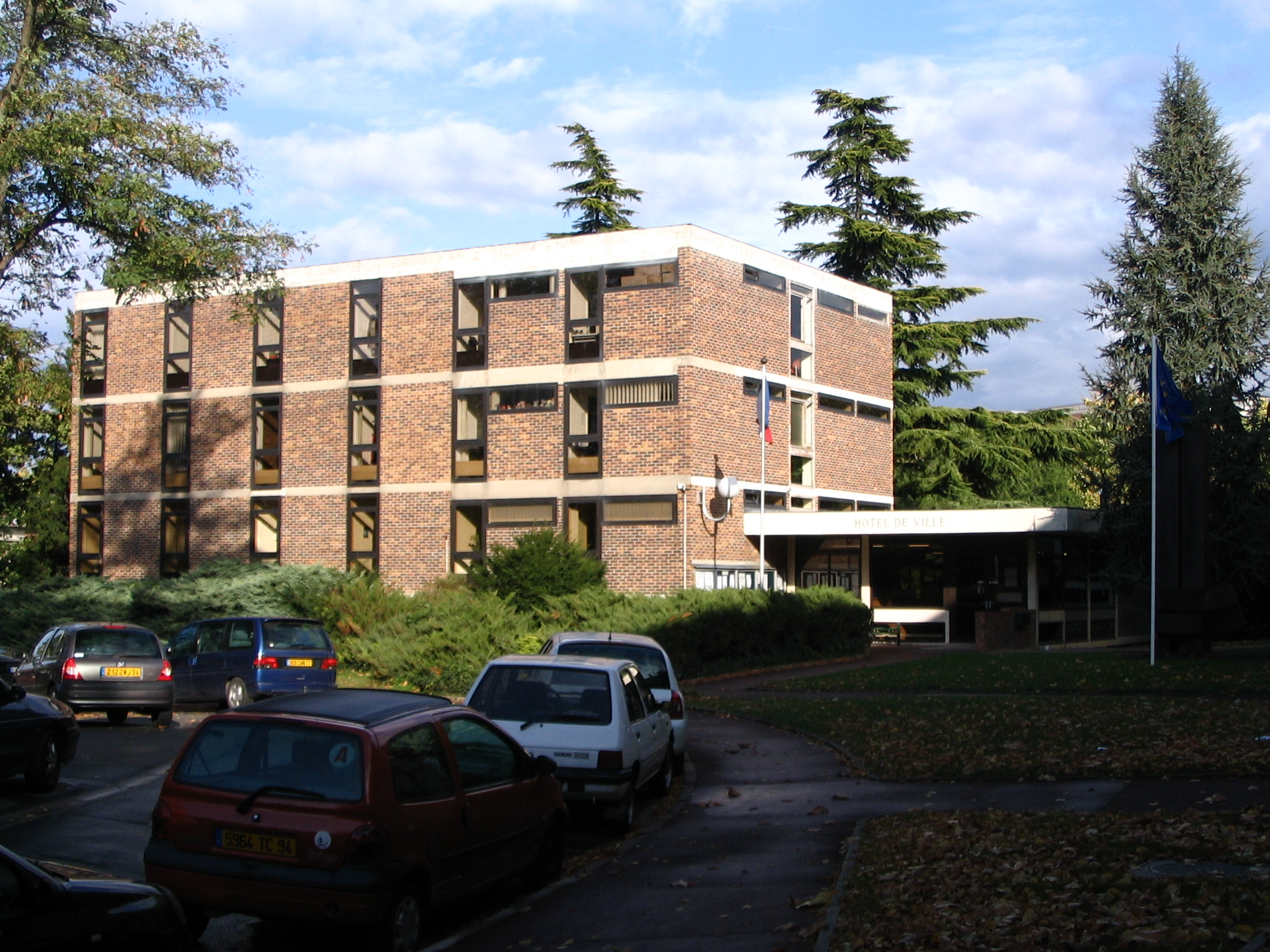 The town hall of Sucy-en-Brie, Val-de-Marne, France.